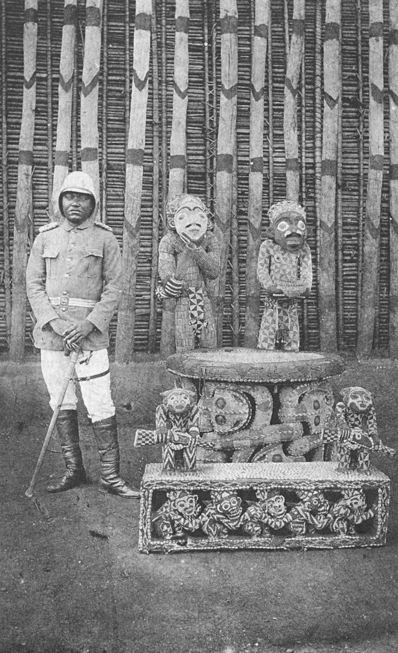 King Njoya of Bamum standing by his father's throne outside the Old Palace of Foumban, Bamum, Cameroon.